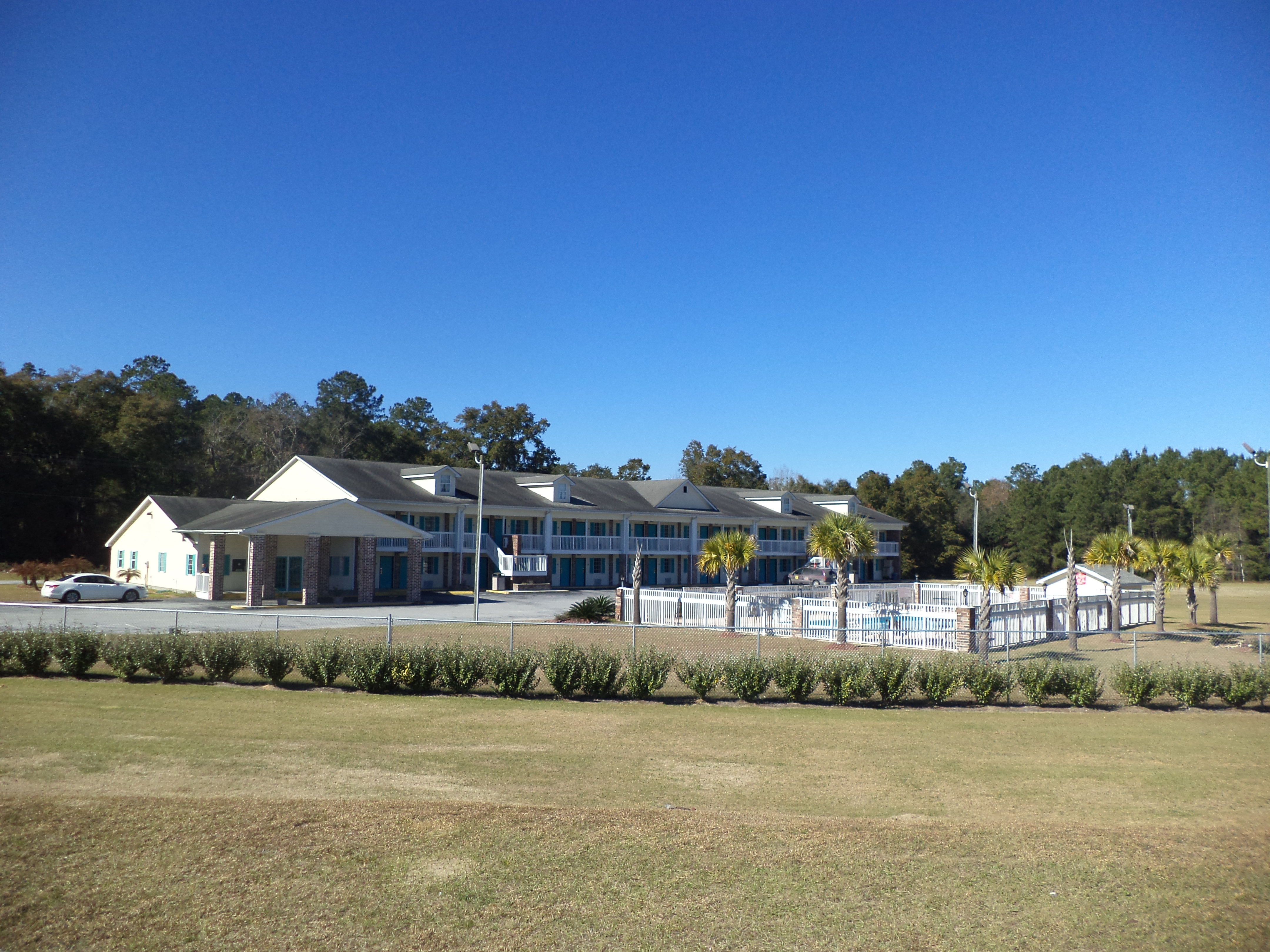 Motel 6 (South face), 6972 Bellville Rd, Lake Park, Lowndes County, Georgia. This has a Lake Park address but is not physically in the city.